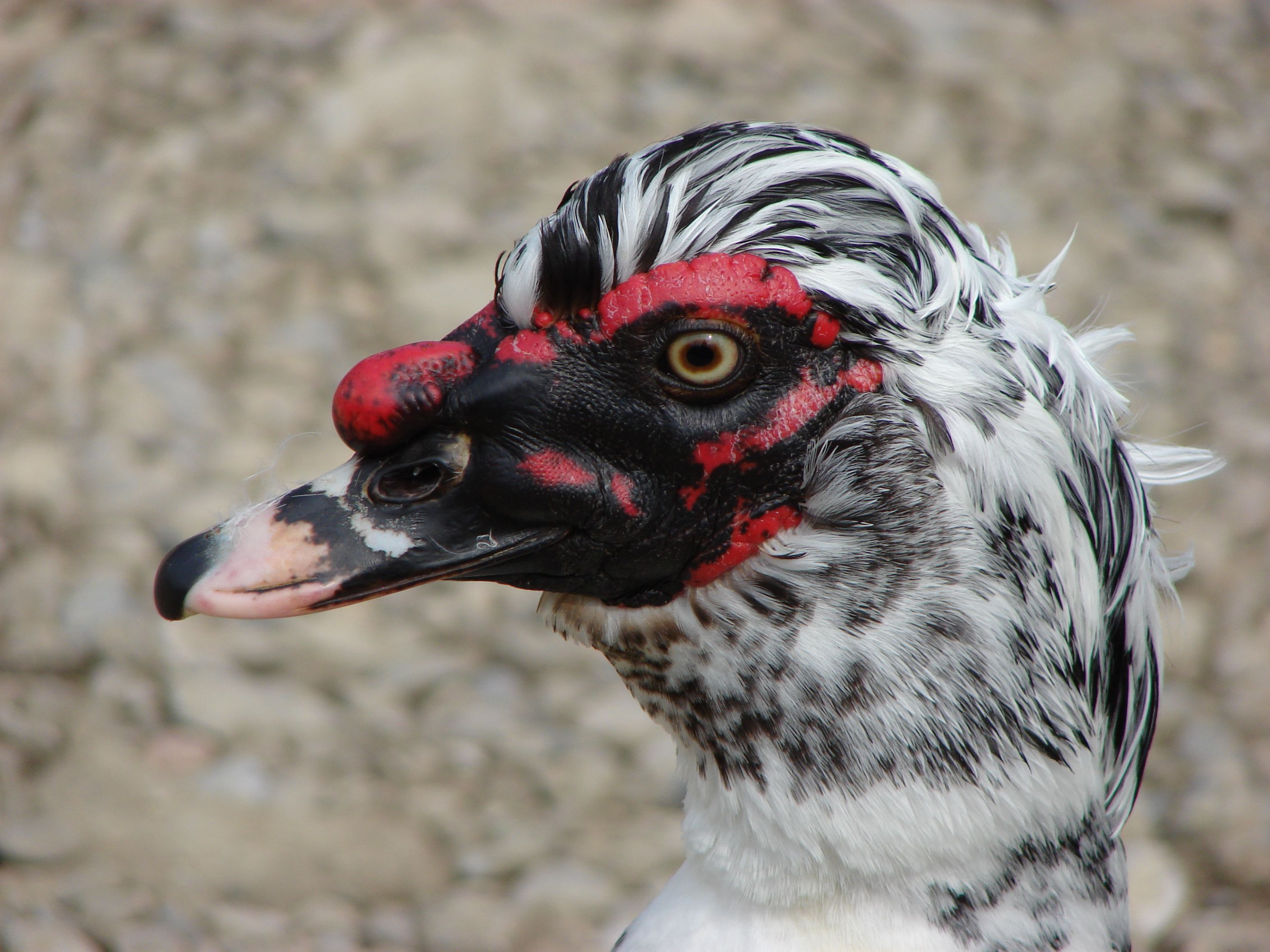 Muscovy Duck in the zoo of Stadt Haag, Austria. Closeup of the head.